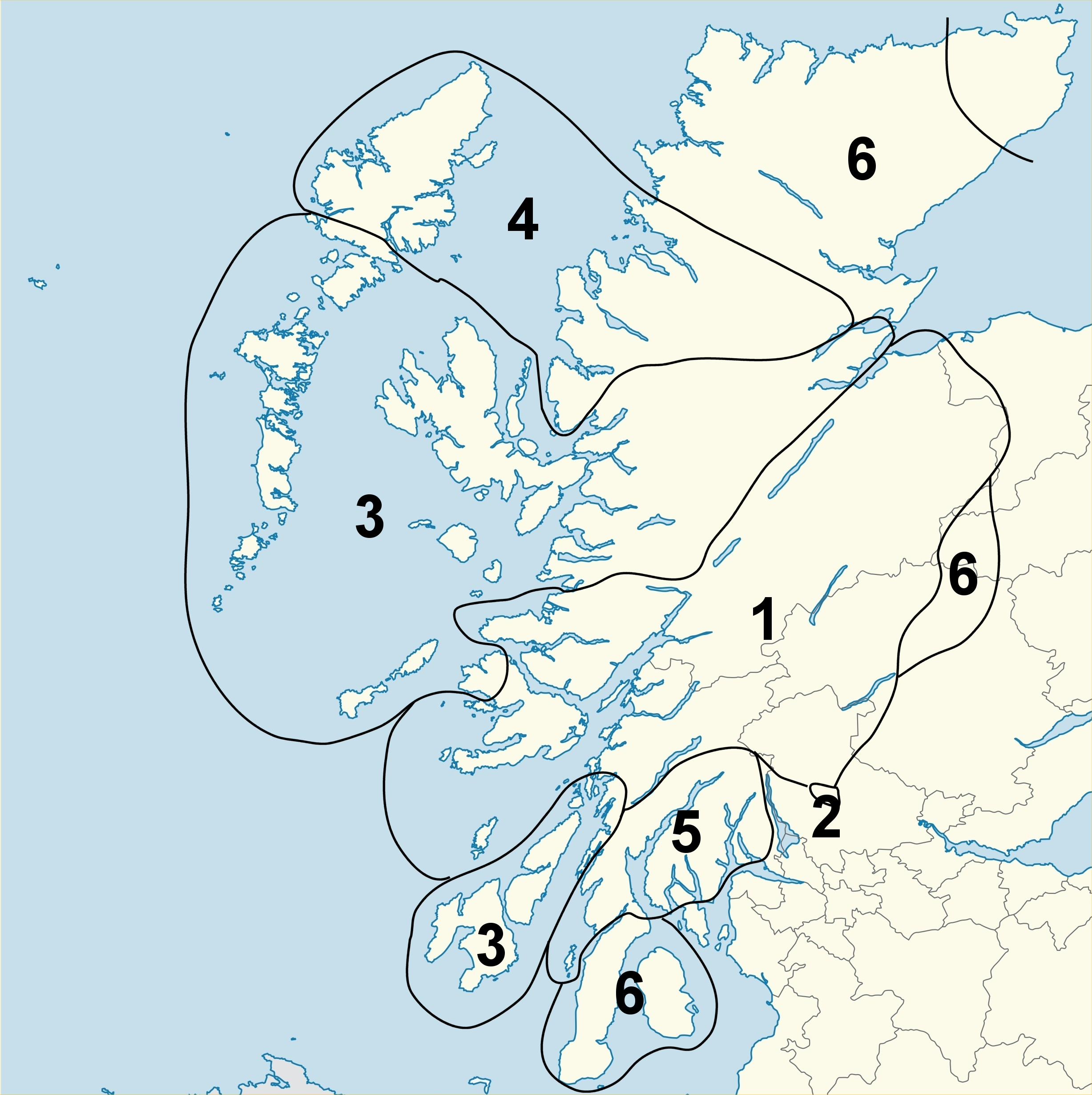 Location map of Scotland, United Kingdom Equirectangular projection, N/S stretching 170 %. Geographic limits of the map: * N: 61.0° N * S: 54.5° N * W: 8.8° W * E: 0.4° W